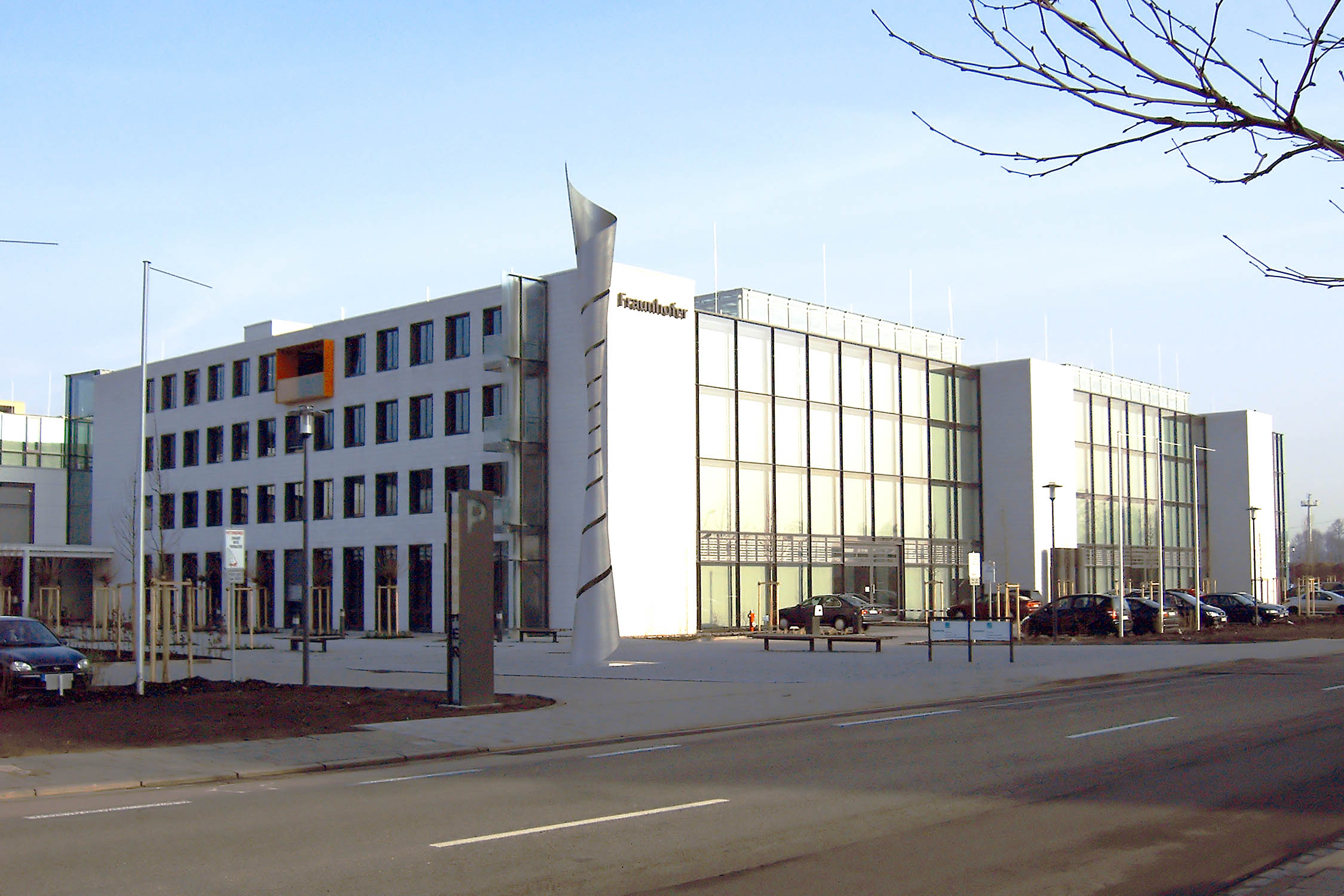 New Building of the Fraunhofer ITWM, Kaiserslautern. Derived Work of Image:Fraunhofer ITWM.jpg, made by Benutzer:ArtMechanic